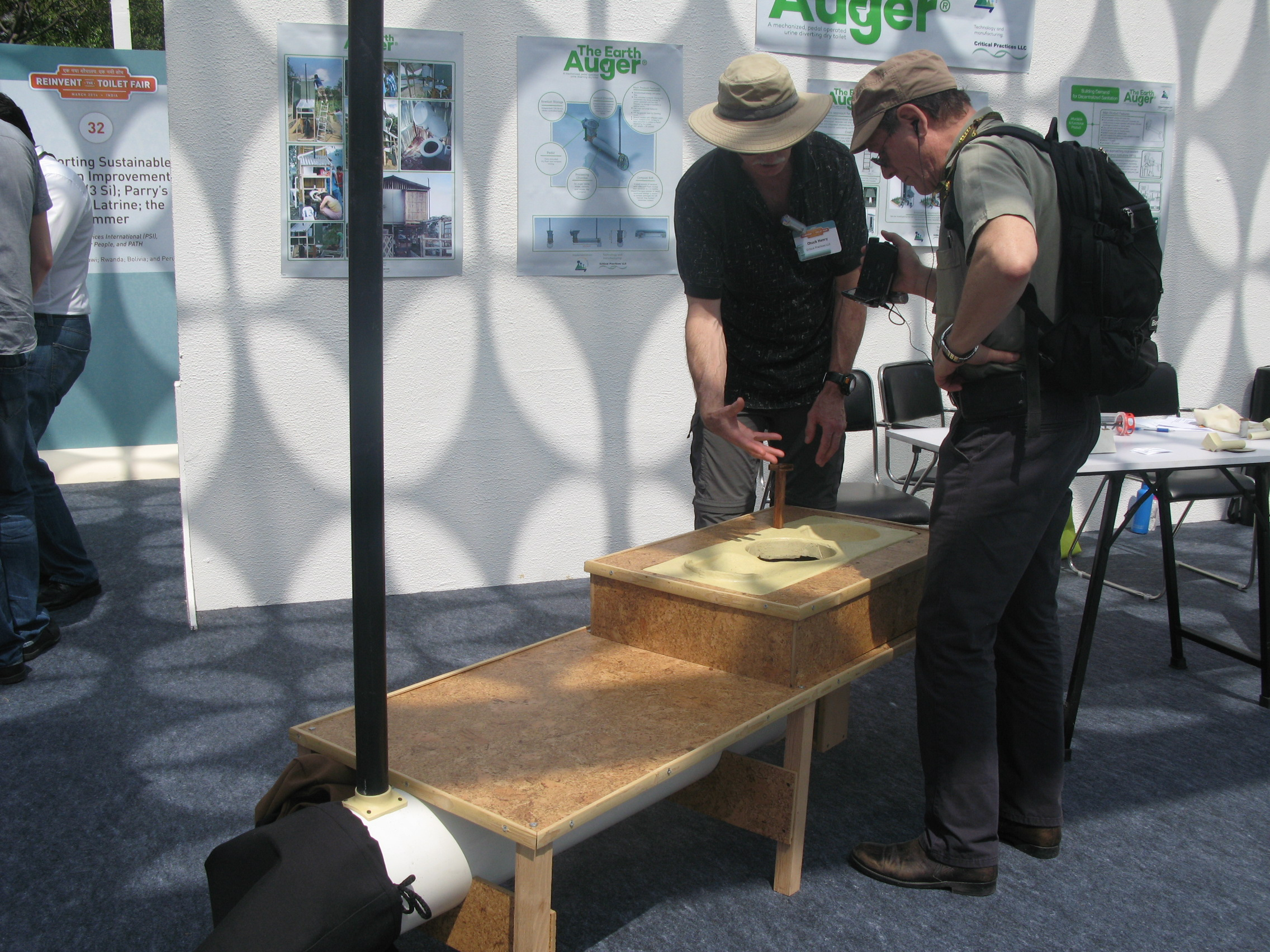 The Earth Auger: Urine Diverting Dry Toilet Fundación In Terris and Critical Practices LLC Ecuador & USA